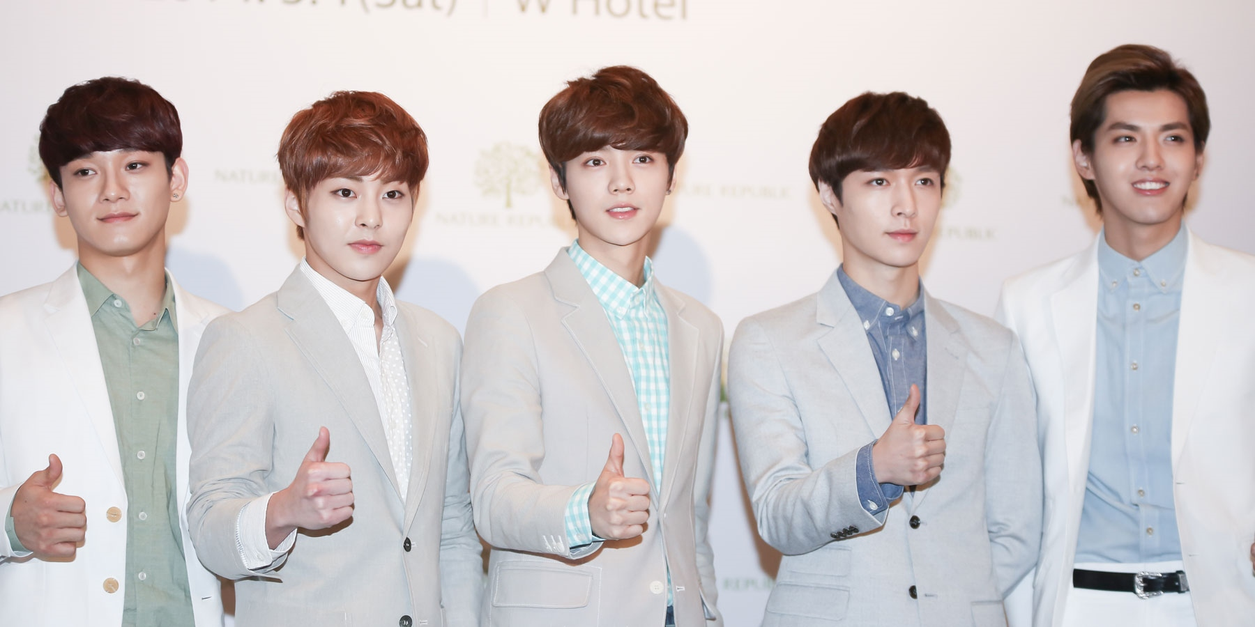 EXO-M at Nature Republic's press conference on March 1, 2014.Português do Brasil: EXO-M na conferência de imprensa da Nature Republic em 1 de março de 2014.